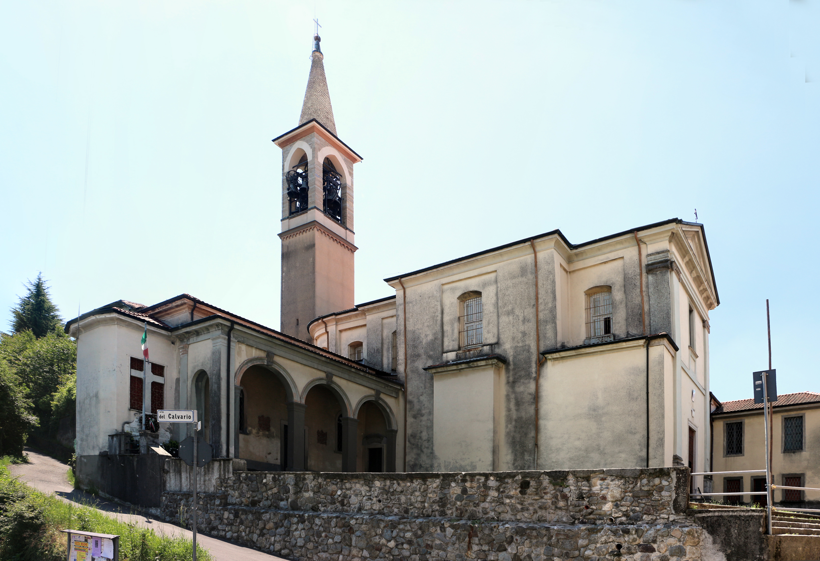 Celana